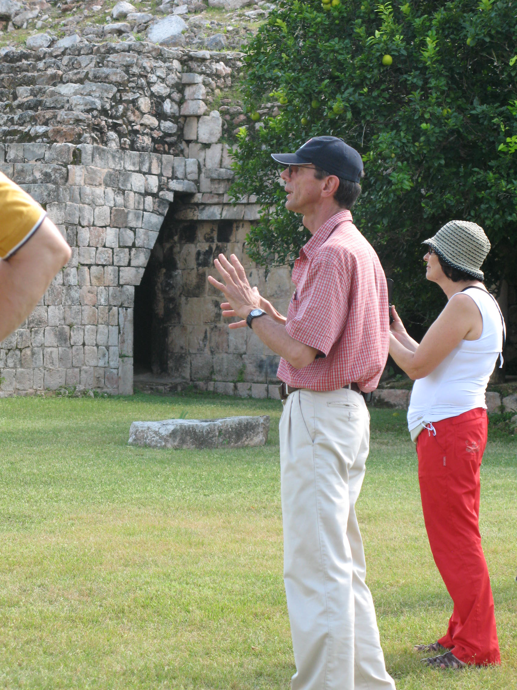 Dr.. Ivan Šprajc explains participants travel throughout Mexico in the Kabah archaeological park